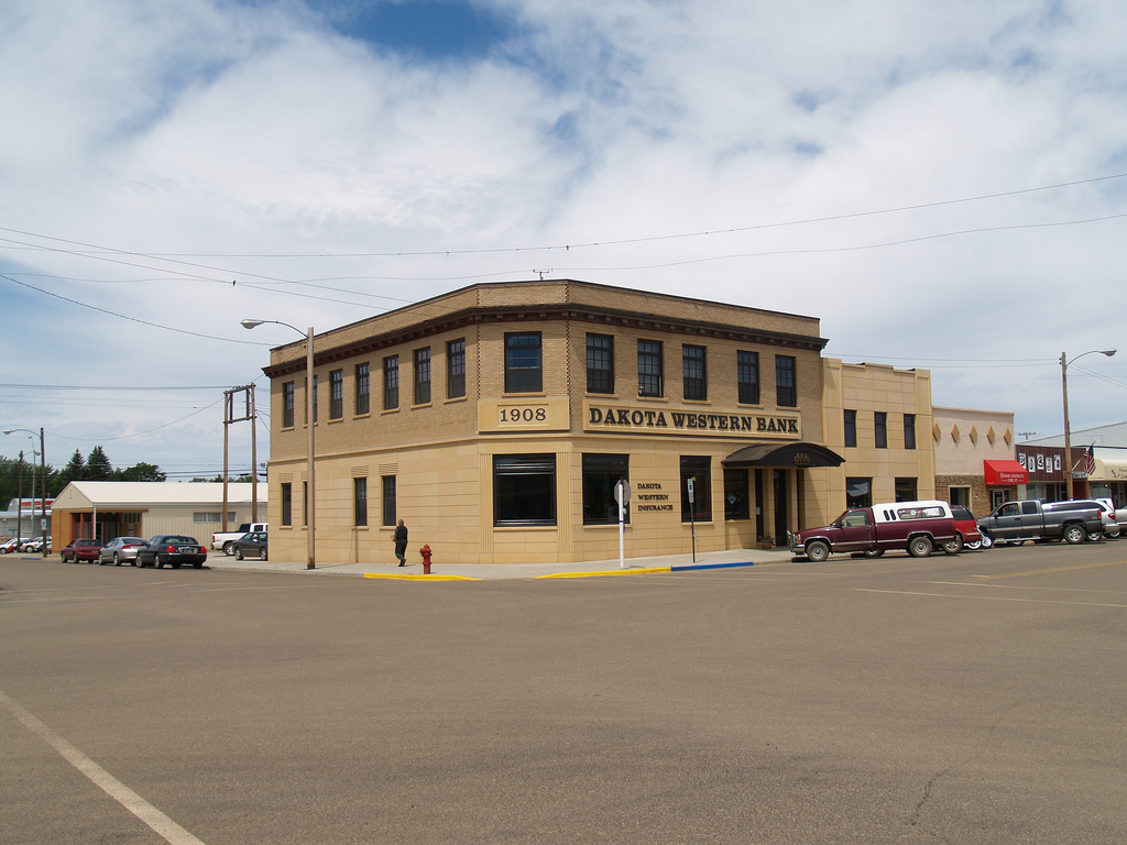 Bowman, North Dakota. From .